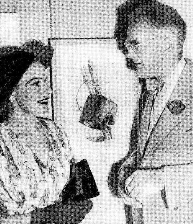 Australian painter and photographer Hal Missingham and his wife Esther, 1953